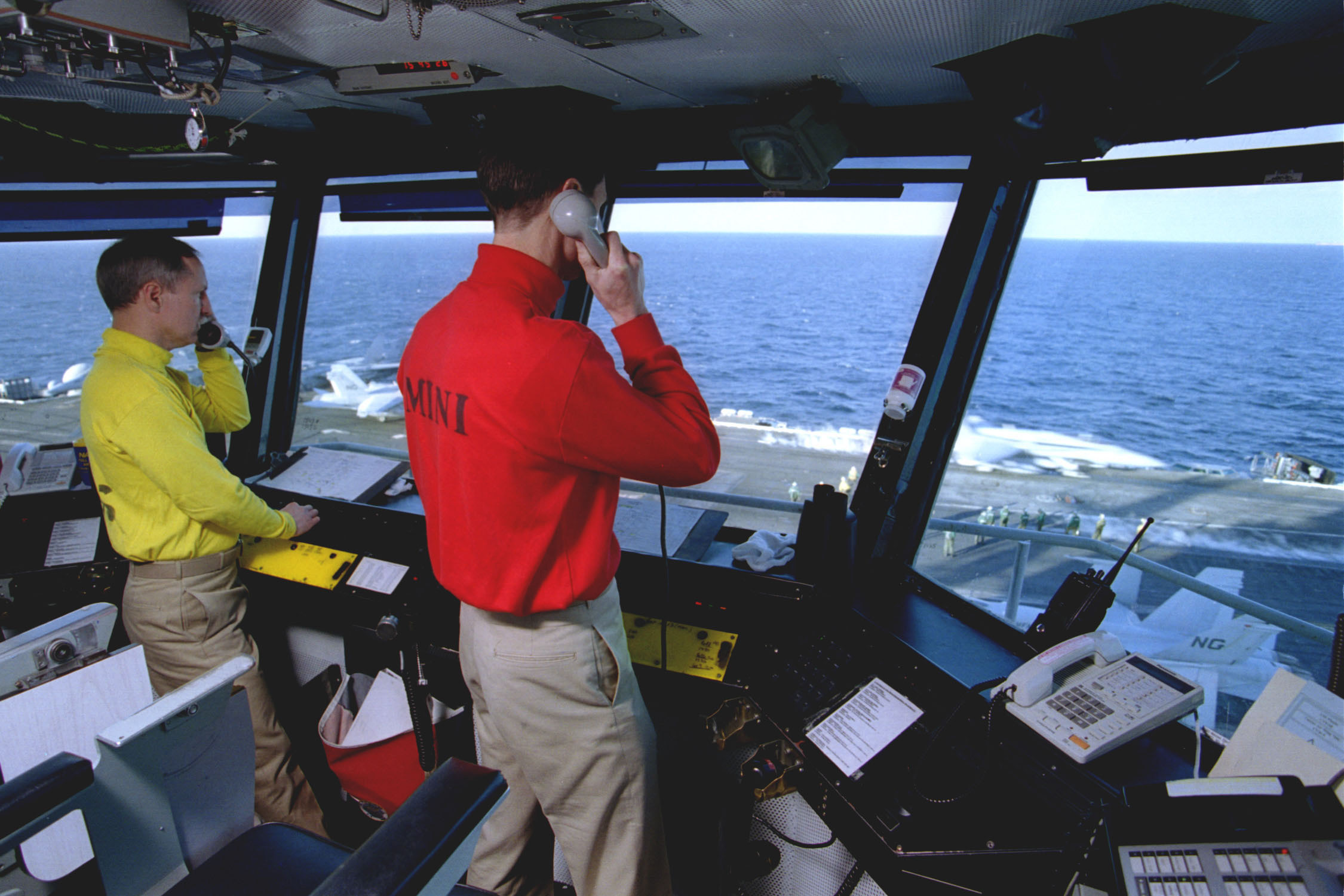 Persian Gulf, 3 November 1997: On board the U.S. nuclear powered aircraft carrier USS Nimitz (CVN-68)... the ship's "Air Boss" Cmdr. Kelly McCoy (left) from Kennesaw, Georgia (USA), and his assistant, "Mini-Boss" Cmdr. James Cox (right) from Watertown, New York, control all aircraft operations on the flight deck in the air around the carrier. The Nimitz was operating in the Northern Persian Gulf in support of "Operation Southern Watch".